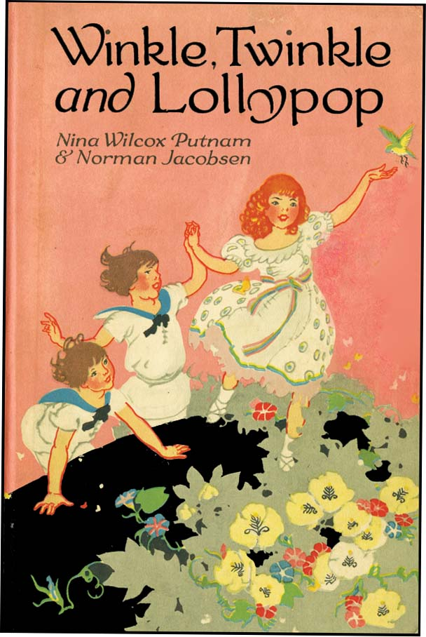 Cover of Winkle, Twinkle and Lollypop by Nina Wilcox Putnam and Norman Jacobsen. Cover illustration by Katharine Sturges Dodge. Published by P. F. Volland Company, 1918. Full book available at Children's Books Online.